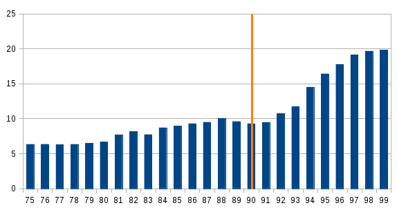 Fixed phone subscriptions per 100 people in Argentina. From 1975 to 1999.